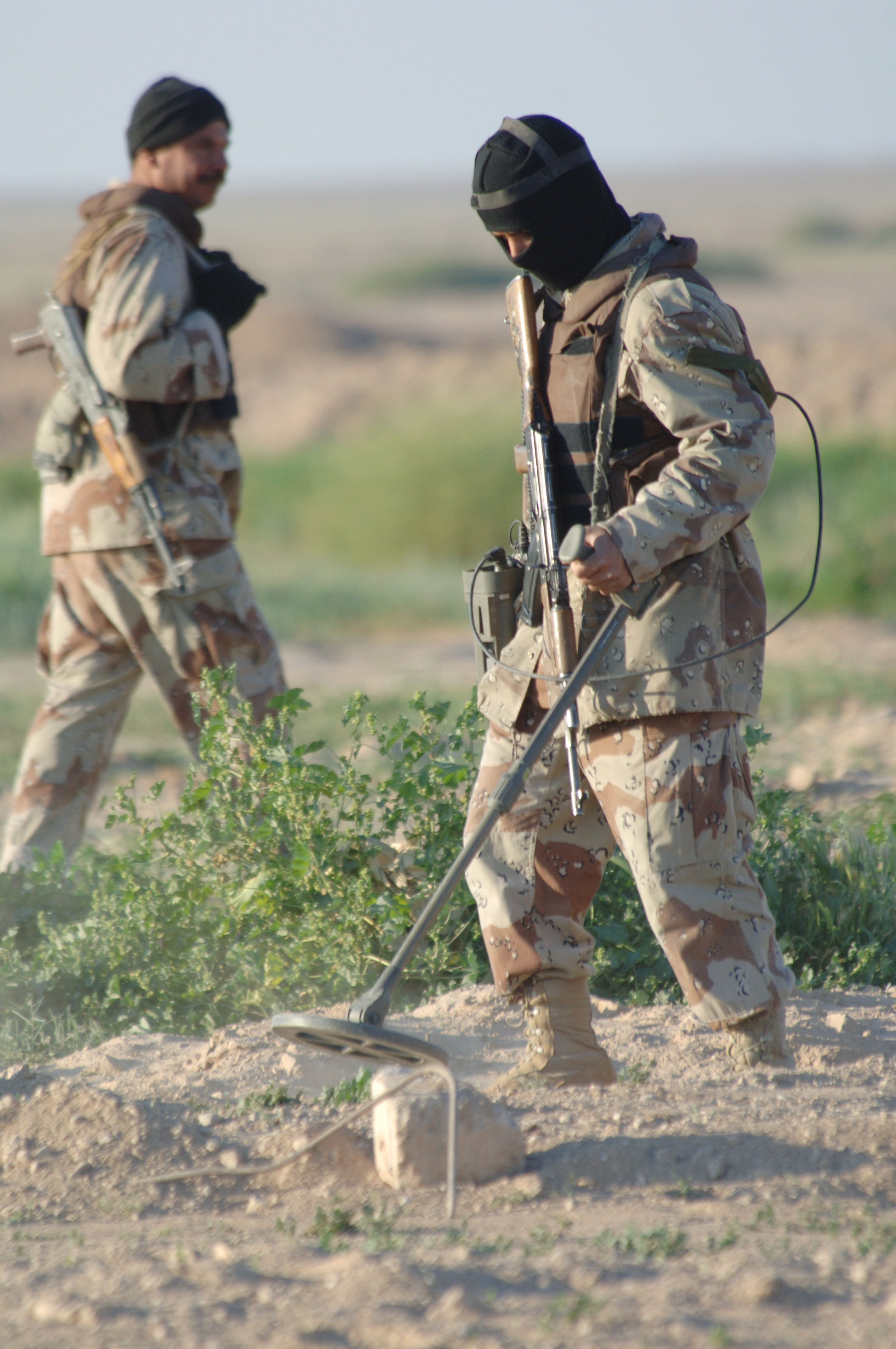 Salah Ad Din Providence, Iraq (March 29, 2006) - Iraq Army soldiers from the 1st Battalion, 1st Brigade, 4th Division, check for buried weapons during a patrol in the Western desert. U.S. Navy photo by photographer's Mate 3rd Class Shawn Hussong (Released)